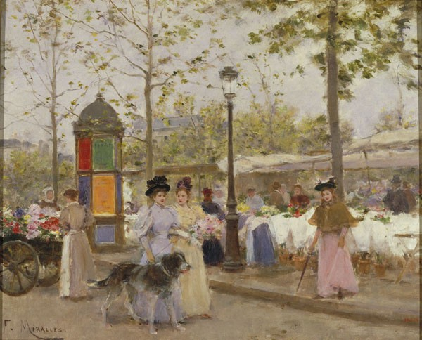 The Spring